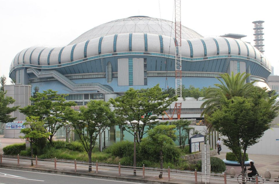 Kyocera Dome Osaka